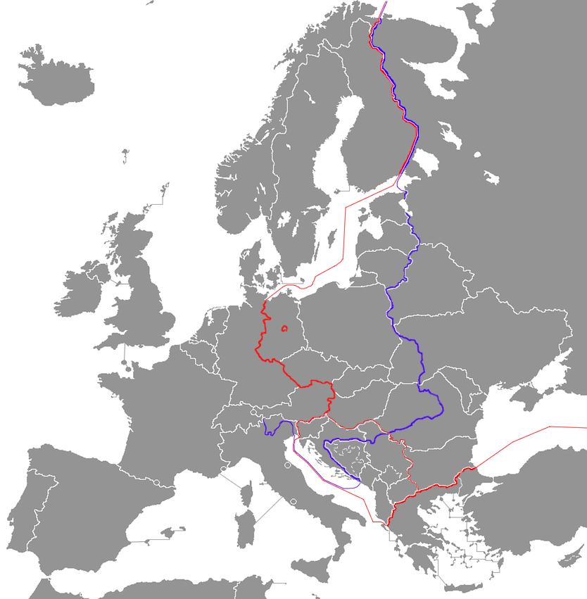 Middle Europe between the occidental area and the German world, since Czesław_Miłosz. Western limit of the communist area. Eastern limit of the German influence area.